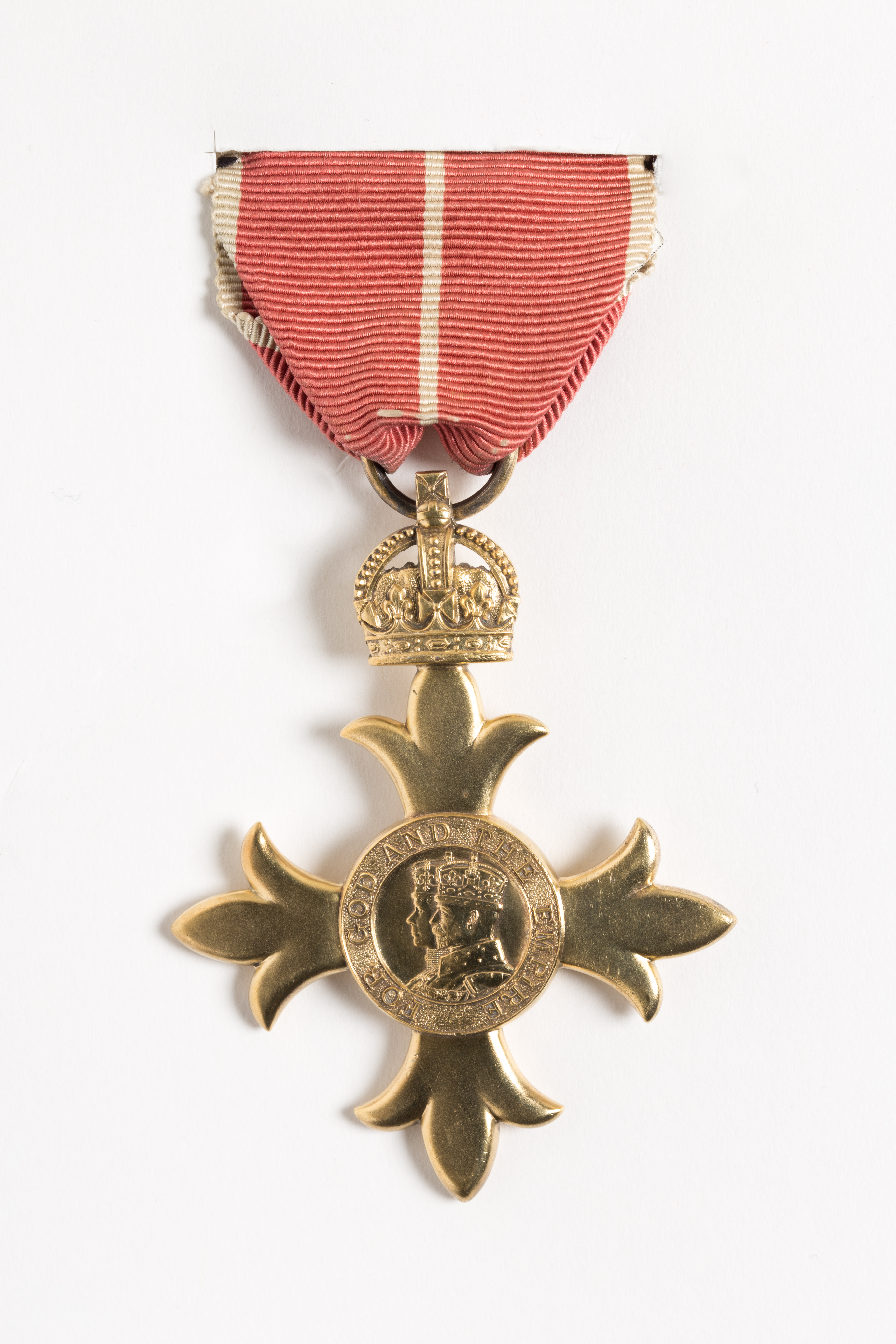 The Most Excellent Order of the British Empire - Officer (Mil) (OBE) GV awarded to Lt. Col. Albert Henry Sage MM metal cross shaped medal, 45mm wide, ring suspension, with ribbon obverse- cross with ring with motto FOR GOD AND COUNTRY with George V and Queen Mary reverse- Royal Cypher ribbon- grosgrain ribbon, 38mm wide, crimson with white striped edges and white stripe in centre